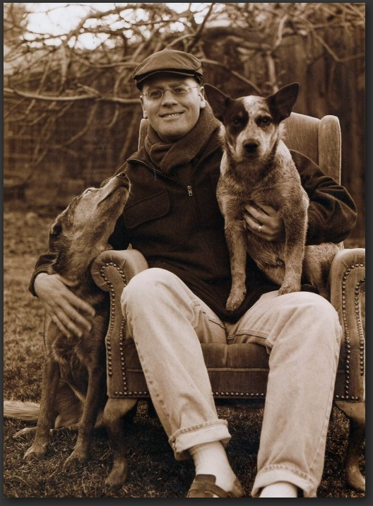 Ed Ross with his pets Ruby and Max (max on his lap)